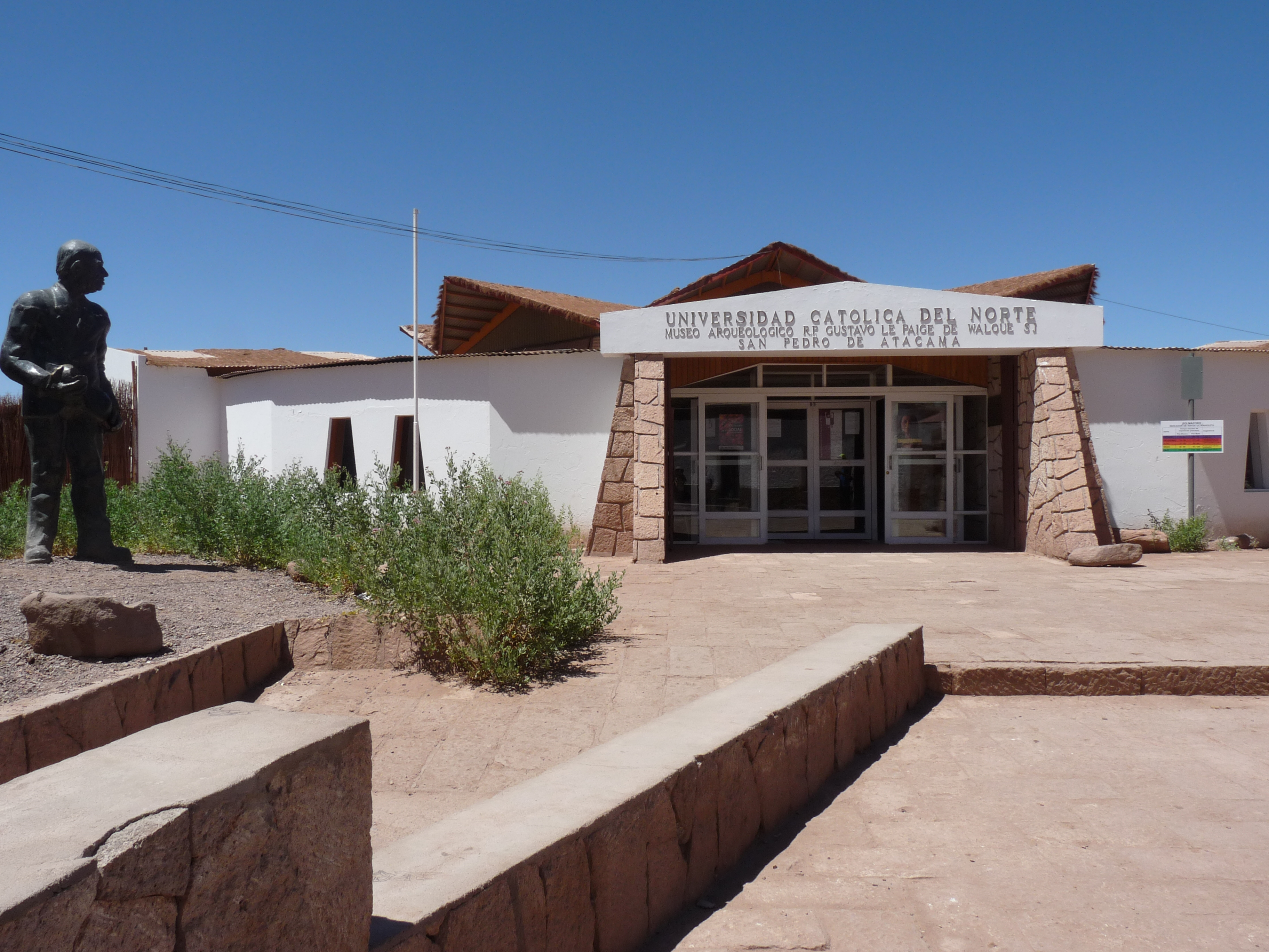 R. P. Gustavo Le Paige Archaeological museum in San Pedro de Atacama in Chile. Famous for its collections on Atacameño civilization